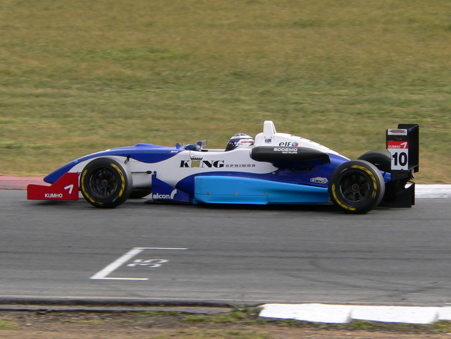 Australian Formula 3 race car number 10 driven by Michael Trimble at Round 5 of the 2006 Australian Drivers' Championship at Malalla Motorsports Park